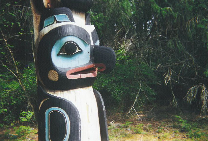 Detail of a raven head on a totem pole, Sitka National Historic Park, Baranoff Island, Alaska